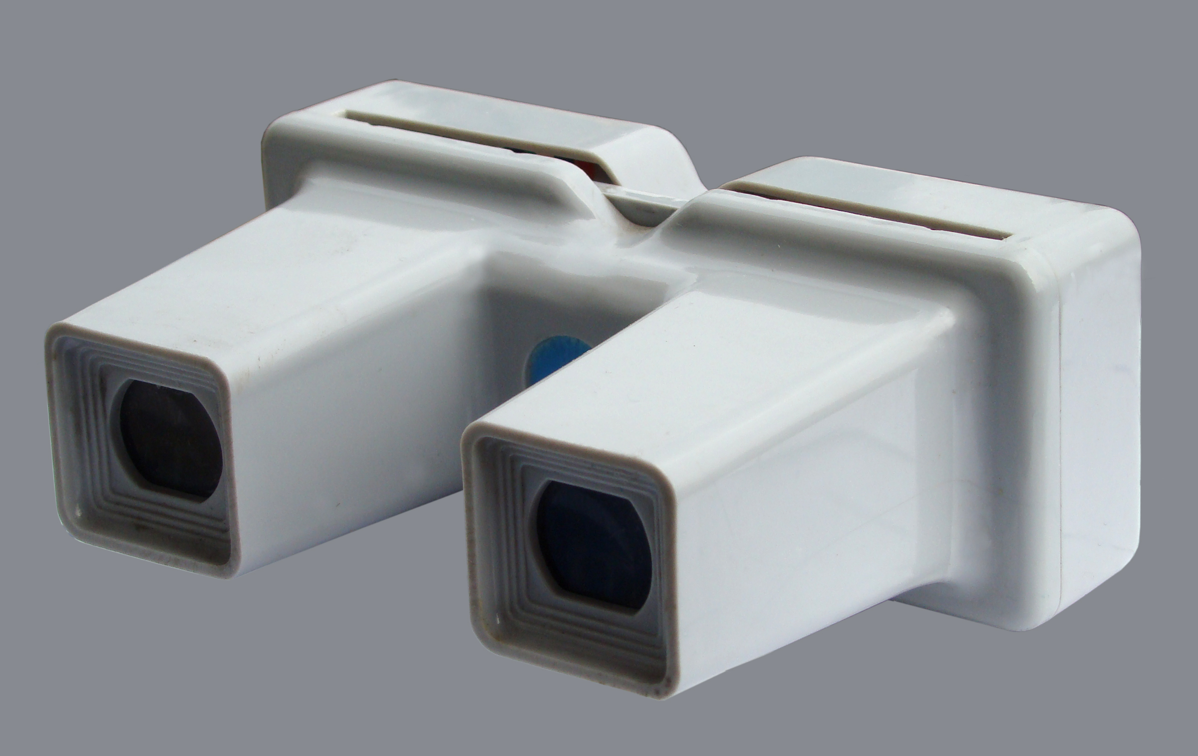 Stereoscope for 2x24x32 slides - made in DDR